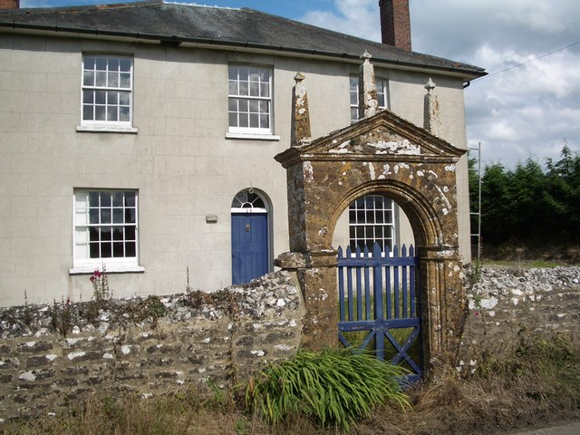 Newlands Farm The unusual gateway is inscribed 1622